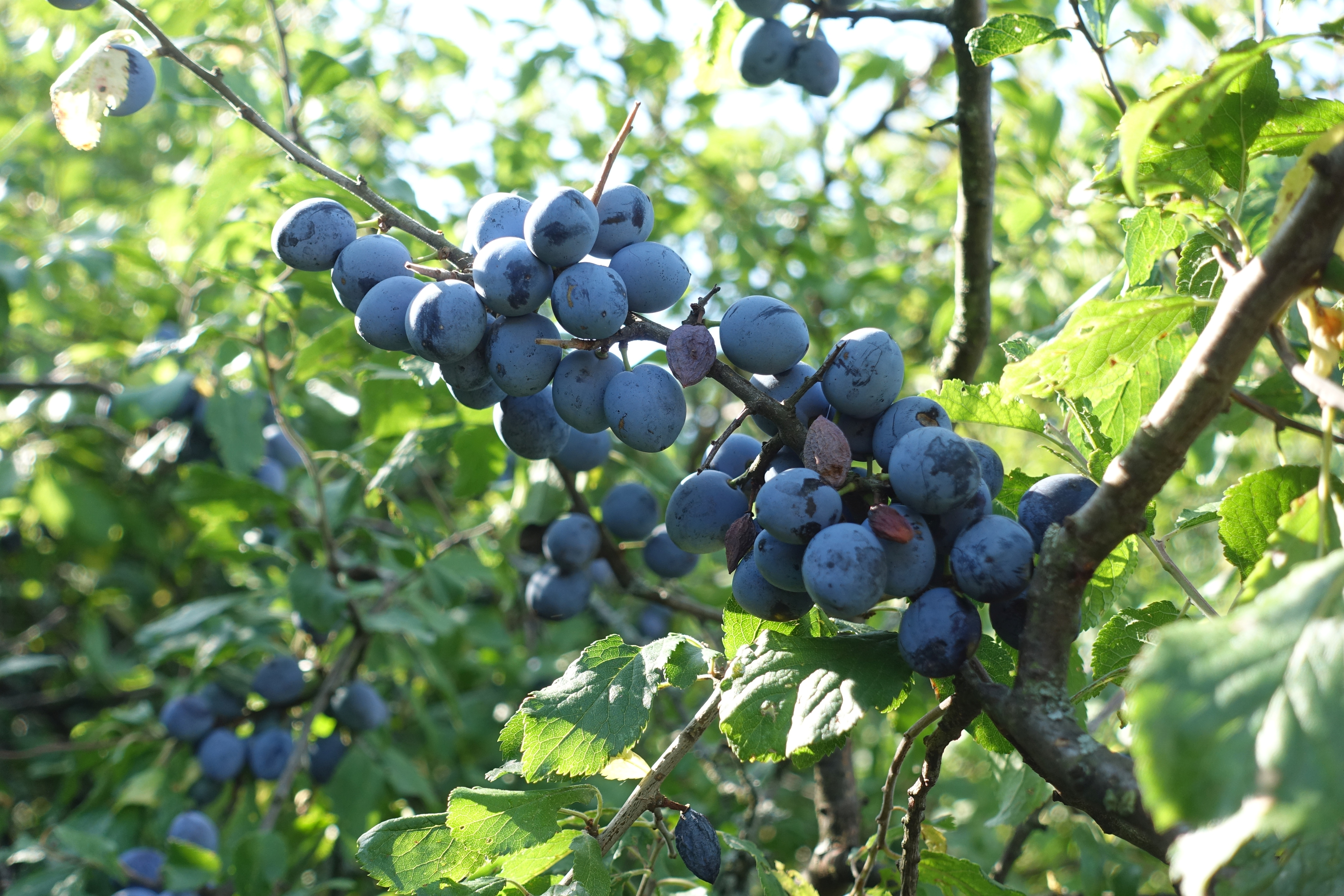 Fruit of prunus spinosa, blackthorn or sloe, picture taken near Mannheim, Germany